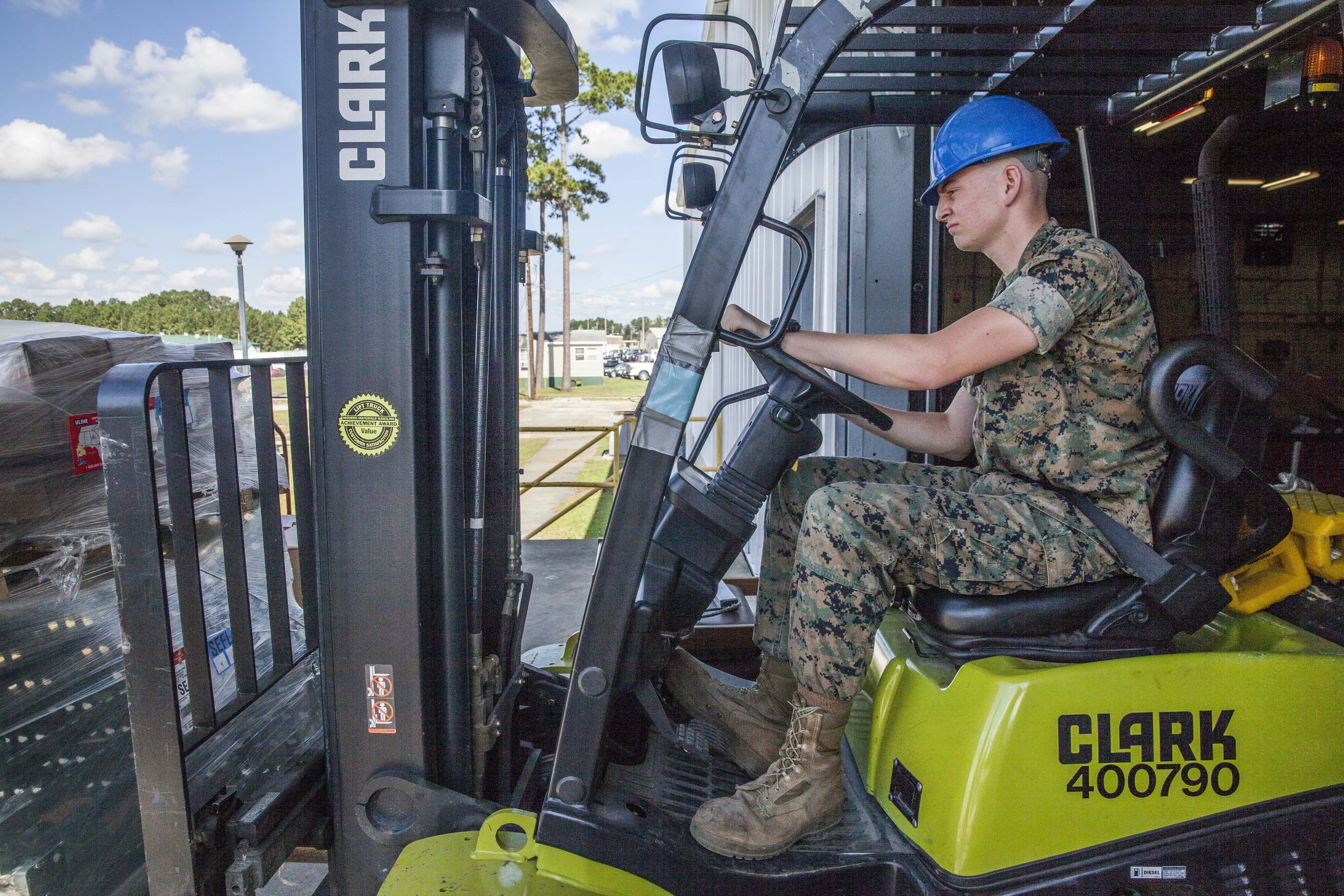 A U.S. Marine warehouse clerk assigned to Marine Aviation Logistics Squadron (MALS) 29, operates a fork lift to remove shelving from a semi-truck aboard Marine Corps Air Station New River, N.C., Oct 18, 2016. MALS-29’s mission is to provide aviation logistics support, guidance, planning, and direction to other squadrons within the Marine Aircraft Group, as well as logistics support for Navy funded equipment in the supporting Marine Wing Support Squadron, Marine Air Control Group, and Marine Aircraft Wing/Mobile Calibration Complex. (Marine Corps Photo by Lance Cpl. Anthony J. Brosilow/Released) Unit: 2nd Marine Aircraft Wing Combat Camera